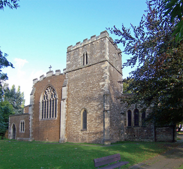 Church of St. Lawrence, Scunthorpe. The Parish Church of Frodingham, this Grade 1 listed building is the oldest in Scunthorpe dating from the Middle Ages. Although it was substantially rebuilt in 1841 with a new nave and chapel added on the north side by Sir Charles Nicholson in 1913. Frodingham Ironstone was used extensively in the construction of the church and the surrounding wall.